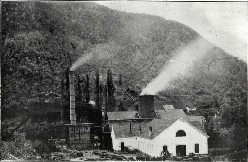 the Govăjdia blast furnace in work in the 1900s